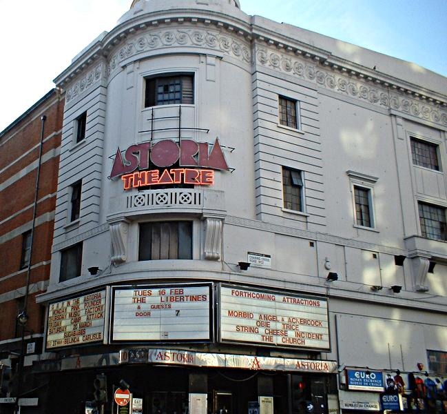 London Astoria taken by C Ford March 04. This is the outside of the Theatre, note, the theatre also houses other non-gay events during the day and on non-g-a-y days.